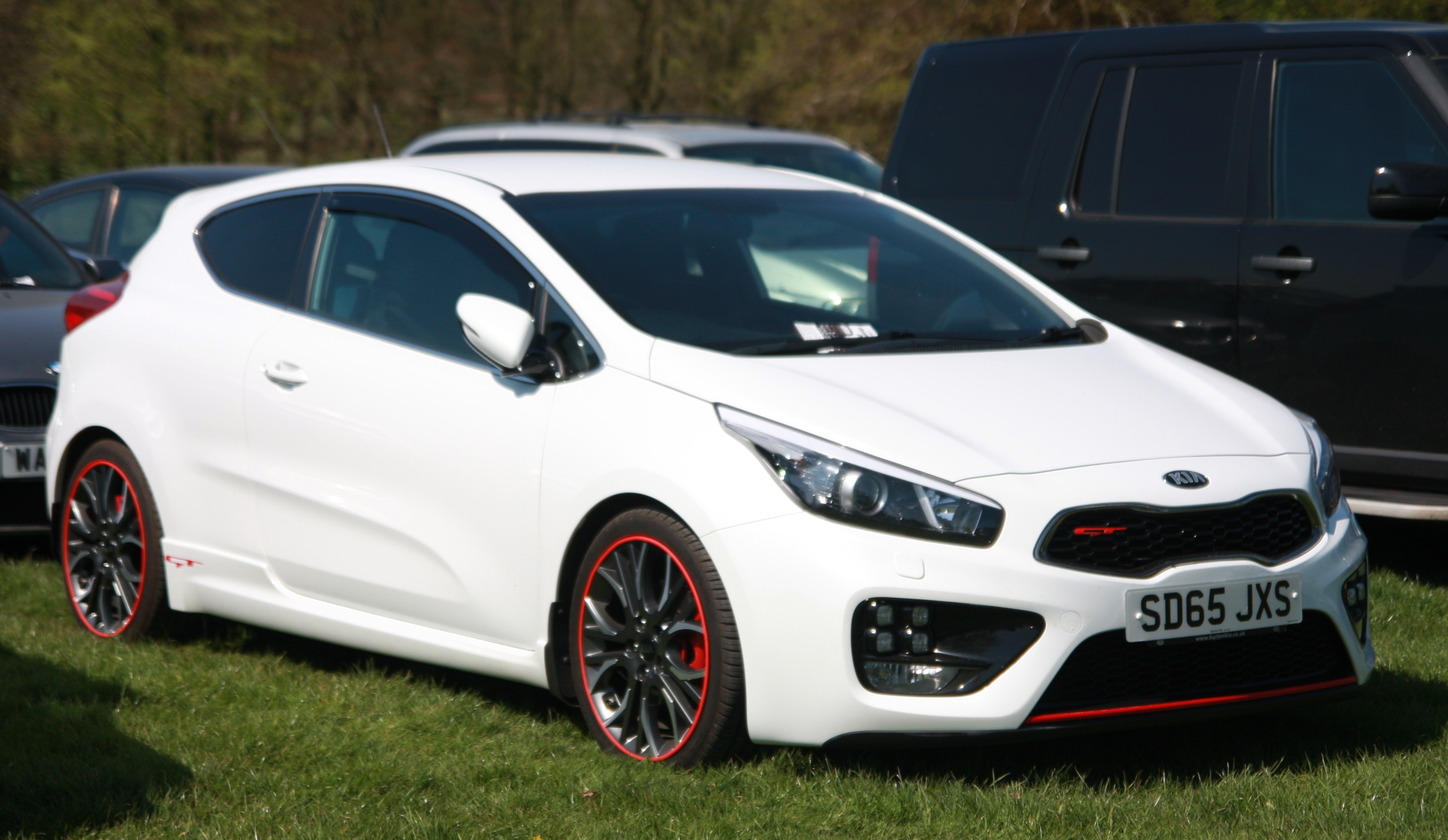 Kia Cee'd GT